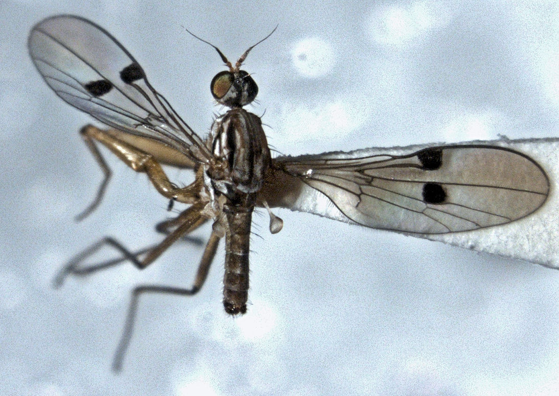 adult male Chelipoda mirabilis